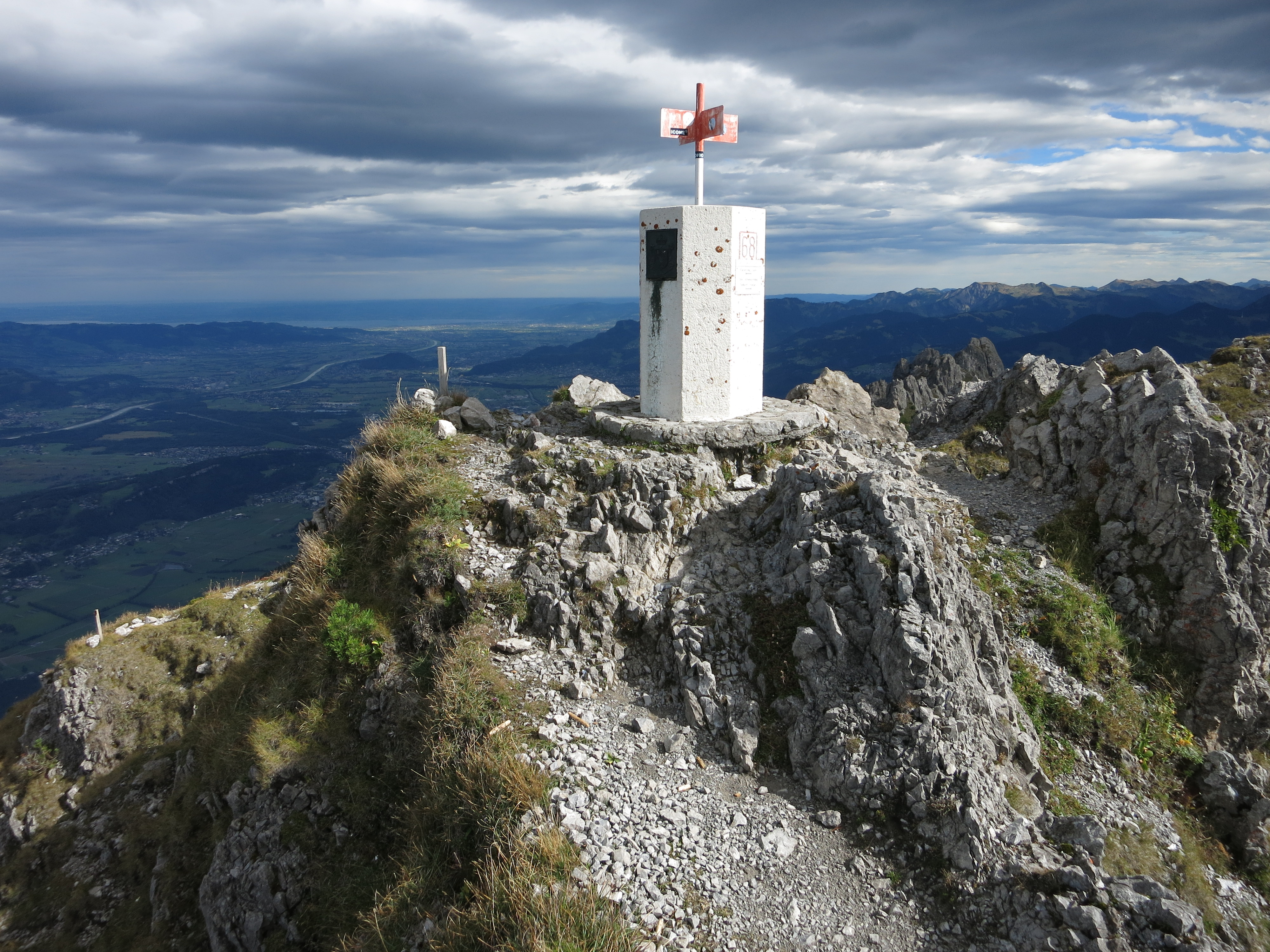 On top of Garsellikopf, border between Liechtenstein and Austria